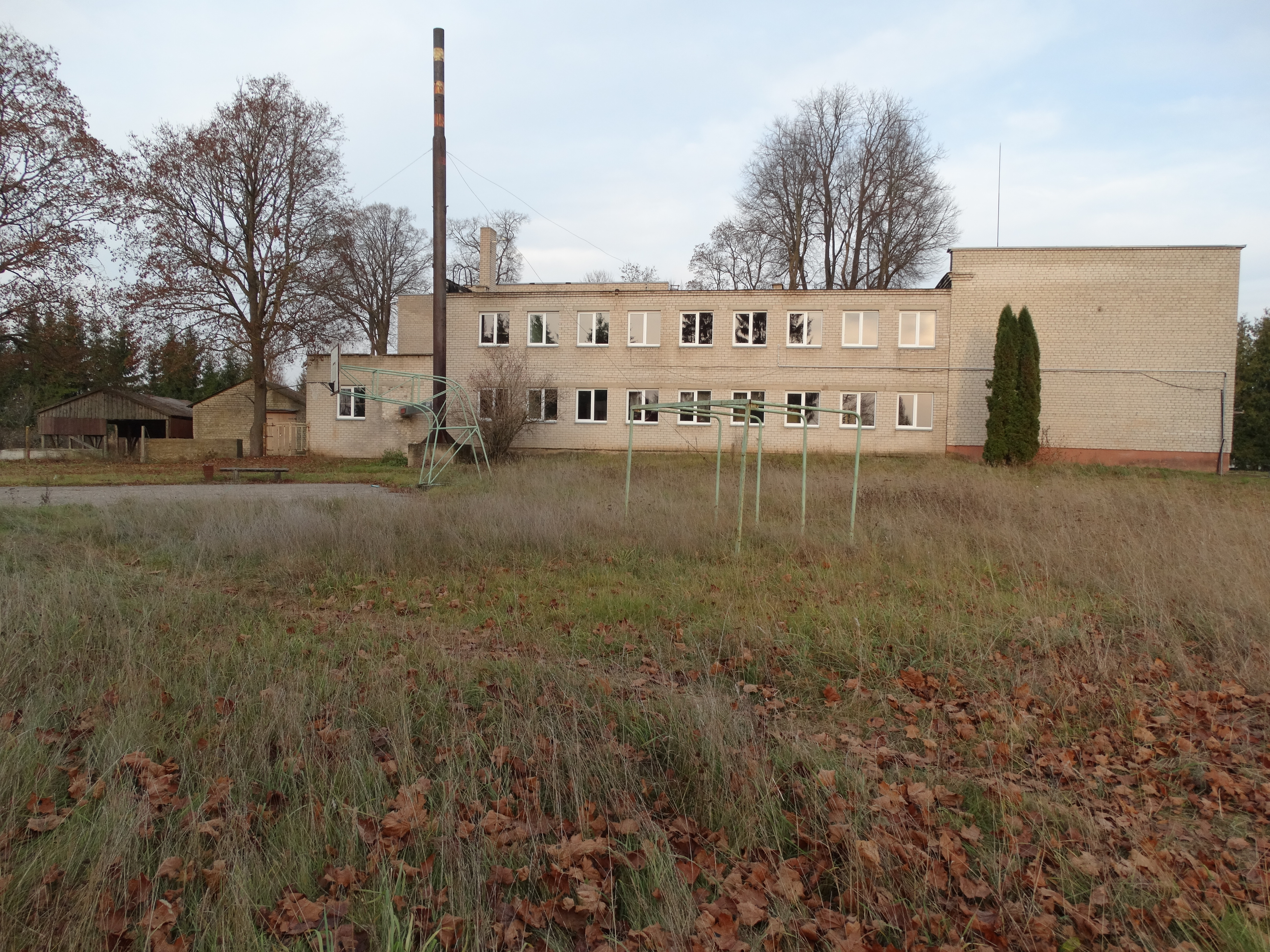 School in Kvetkai, Biržai district, Lithuania